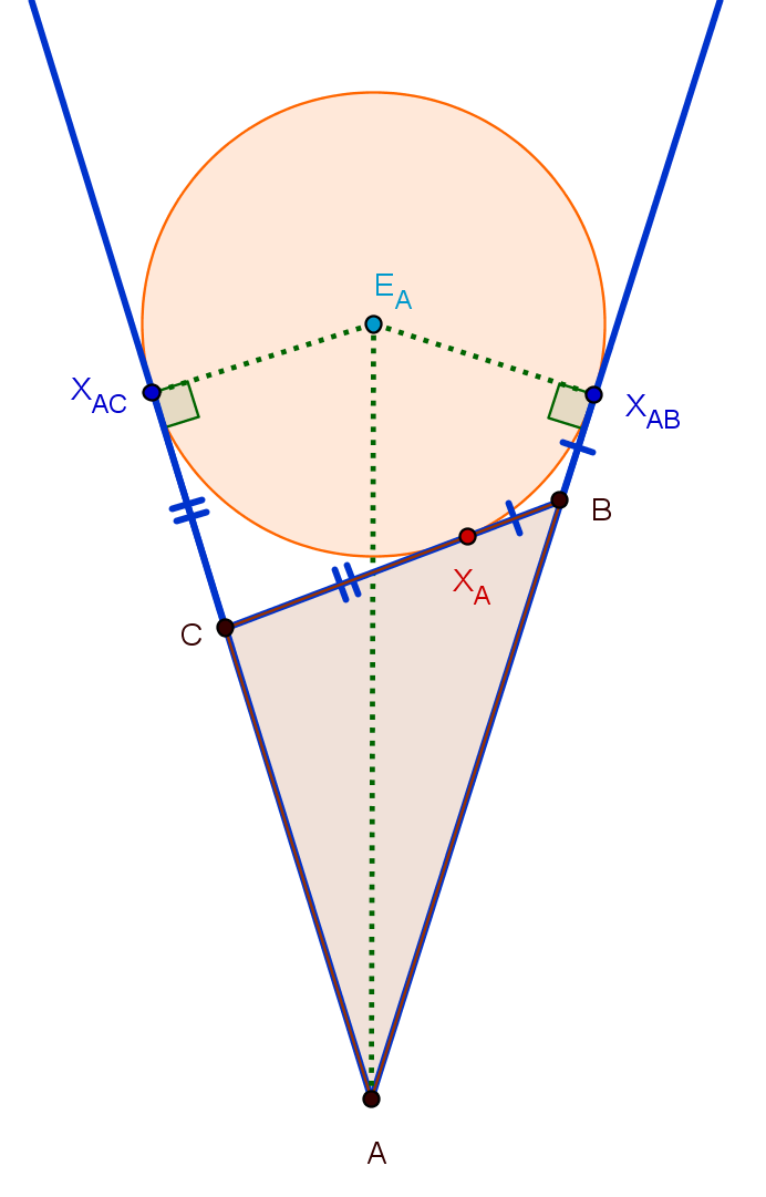 Excircle of triangle